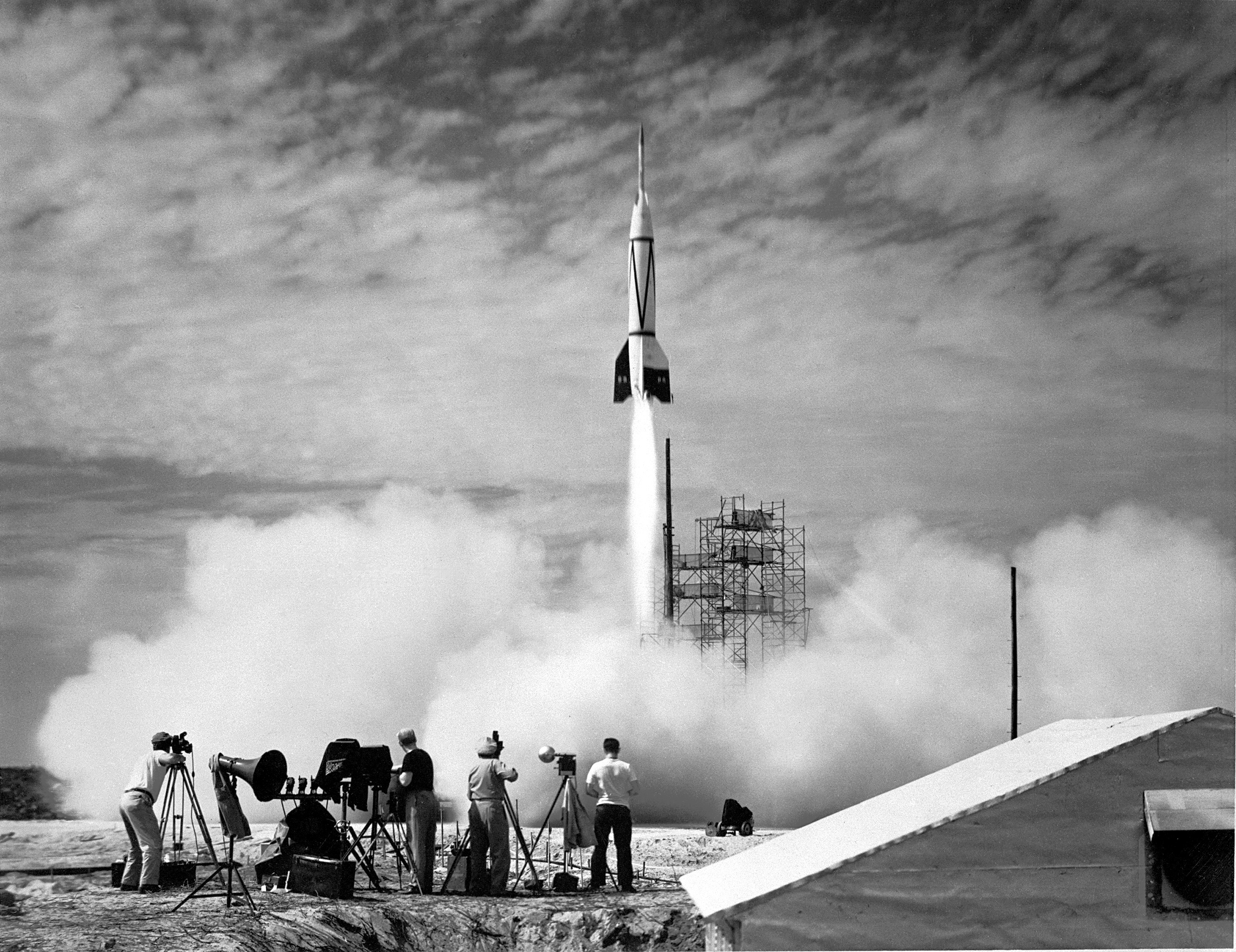 A new chapter in space flight began in July 1950 with the launch of the first rocket from Cape Canaveral , Florida: the Bumper 8. Shown above, Bumper 8 was an ambitious two-stage rocket program that topped a V-2 missile base with a WAC Corporal rocket. The upper stage was able to reach then-record altitudes of almost 400 kilometers, higher than even modern Space Shuttles fly today. Launched under the direction of the General Electric Company, the Bumper Project was used primarily for testing rocket systems and for research on the upper atmosphere . Bumper rockets carried small payloads that allowed them to measure attributes including air temperature and cosmic ray impacts. Seven years later, the Soviet Union launched Sputnik I and Sputnik II, the first satellites into Earth orbit. In response, in 1958, the US created NASA and launched Explorer 1.